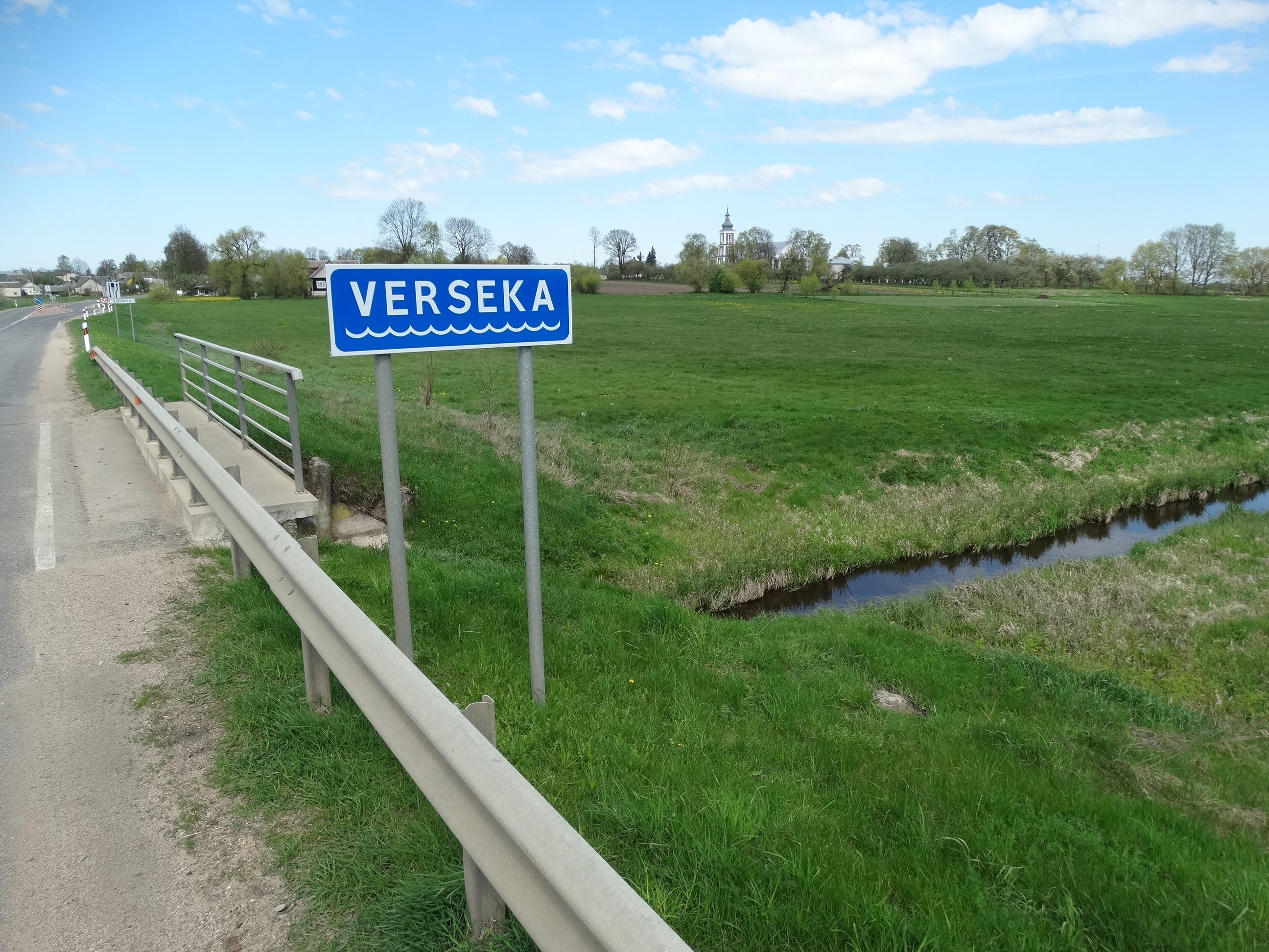 Verseka River, Eišiškės, Šalčininkai District, Lithuania